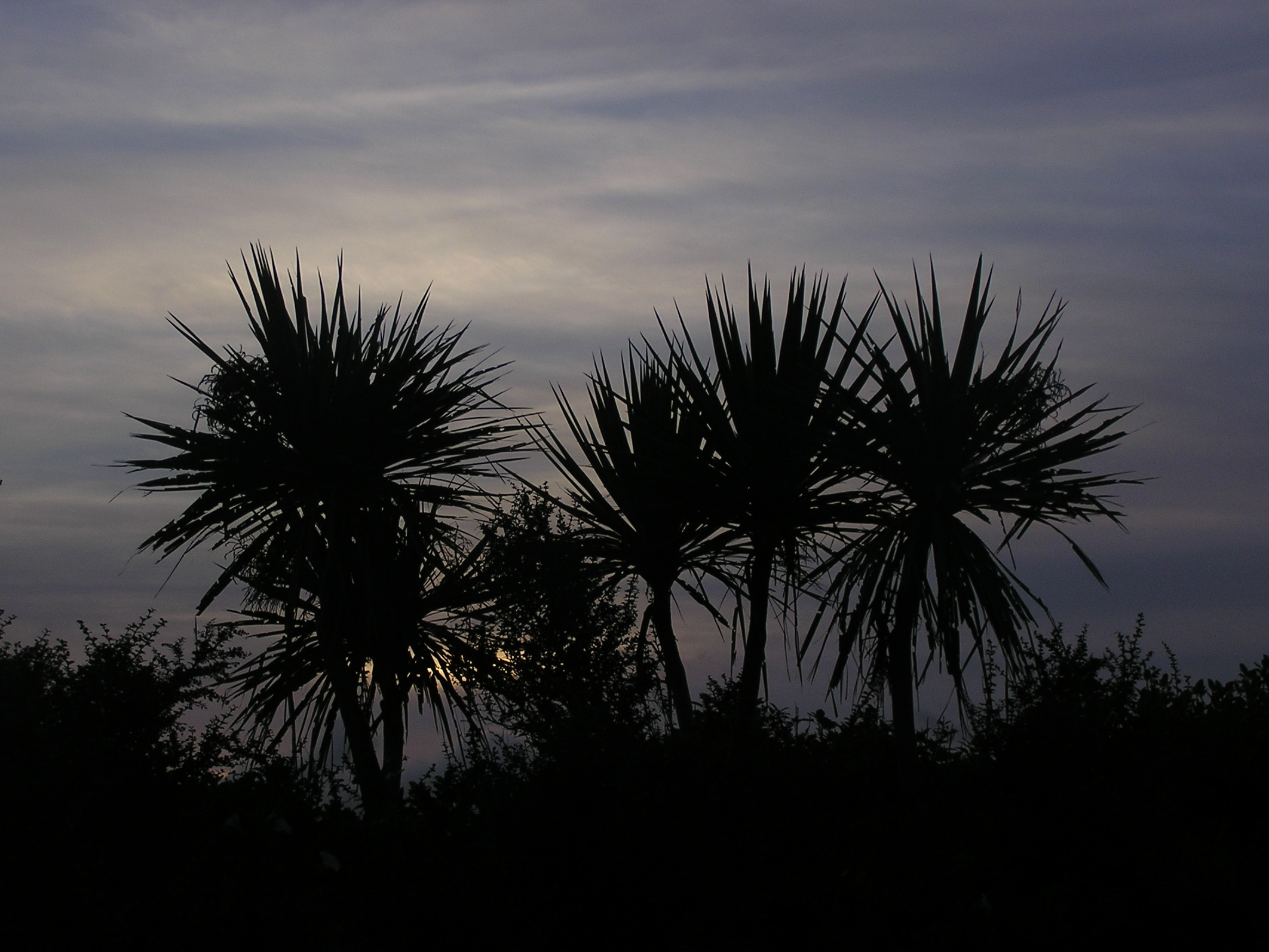 Cabbage tree (Cordyline australis), at dusk, Wellington, New Zealand